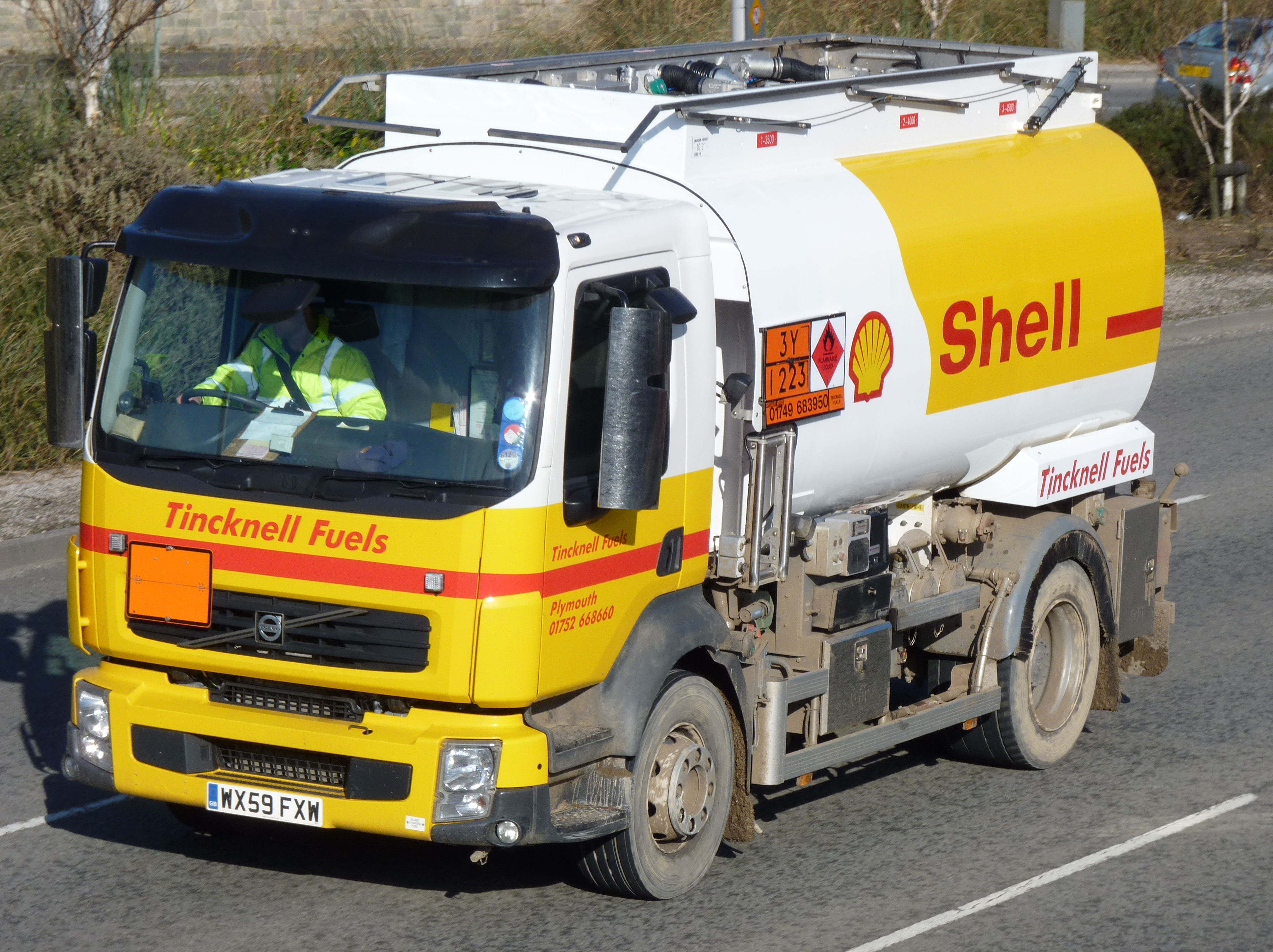 09 February 2010 Marsh Mills Plymouth